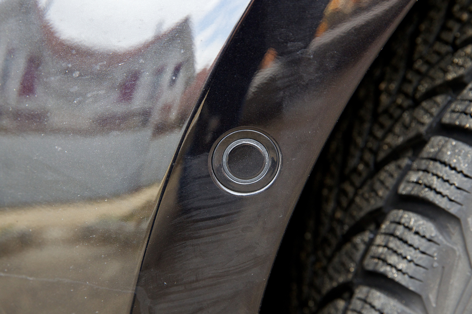 Parking Assist VW Golf